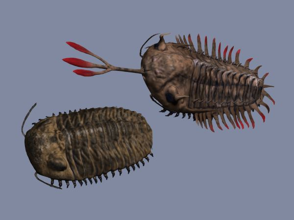 models of Phacops (left) and Walliserops trilobites